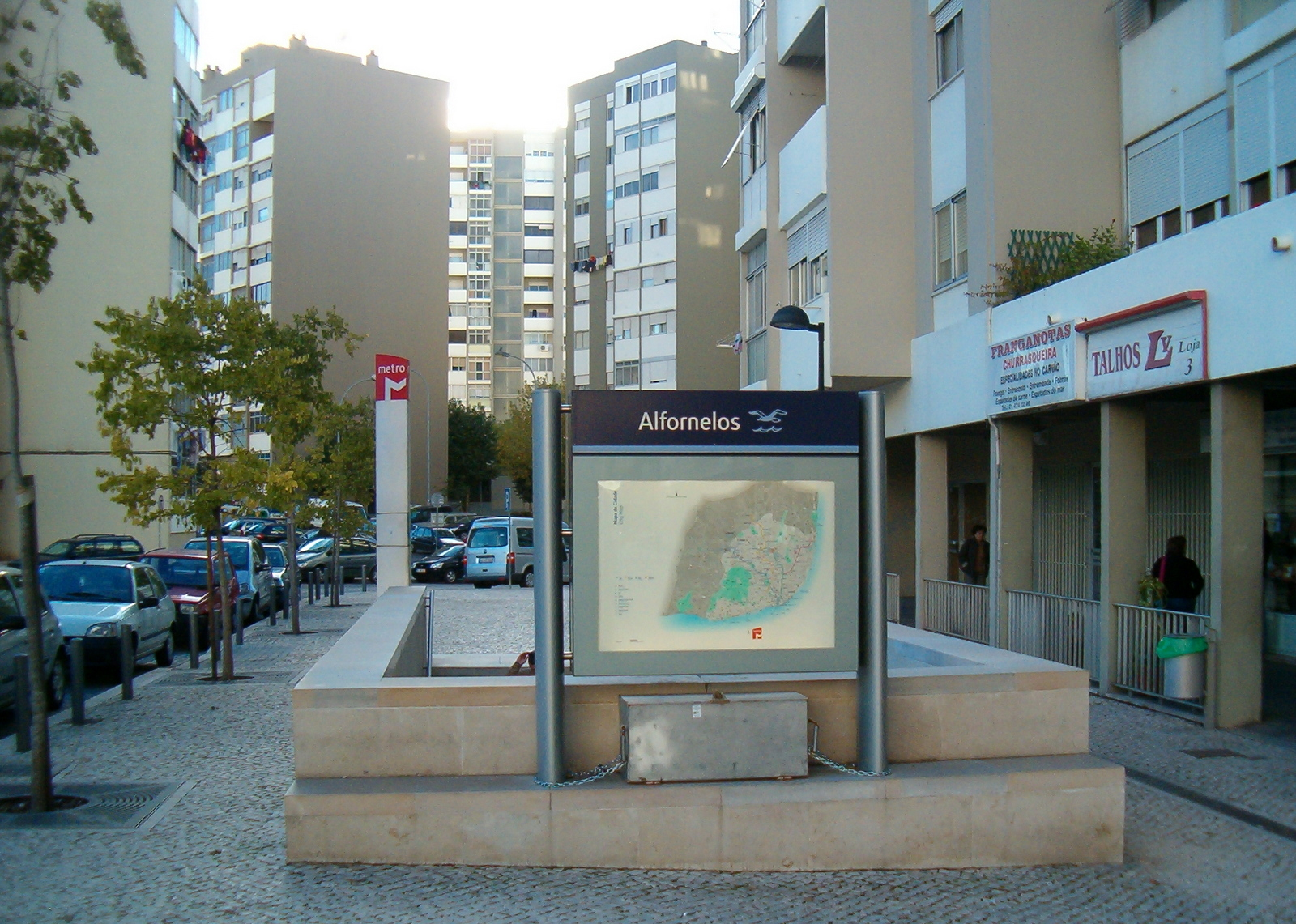 Photo of Alfornelos metro station in Lisbon (street entrance)